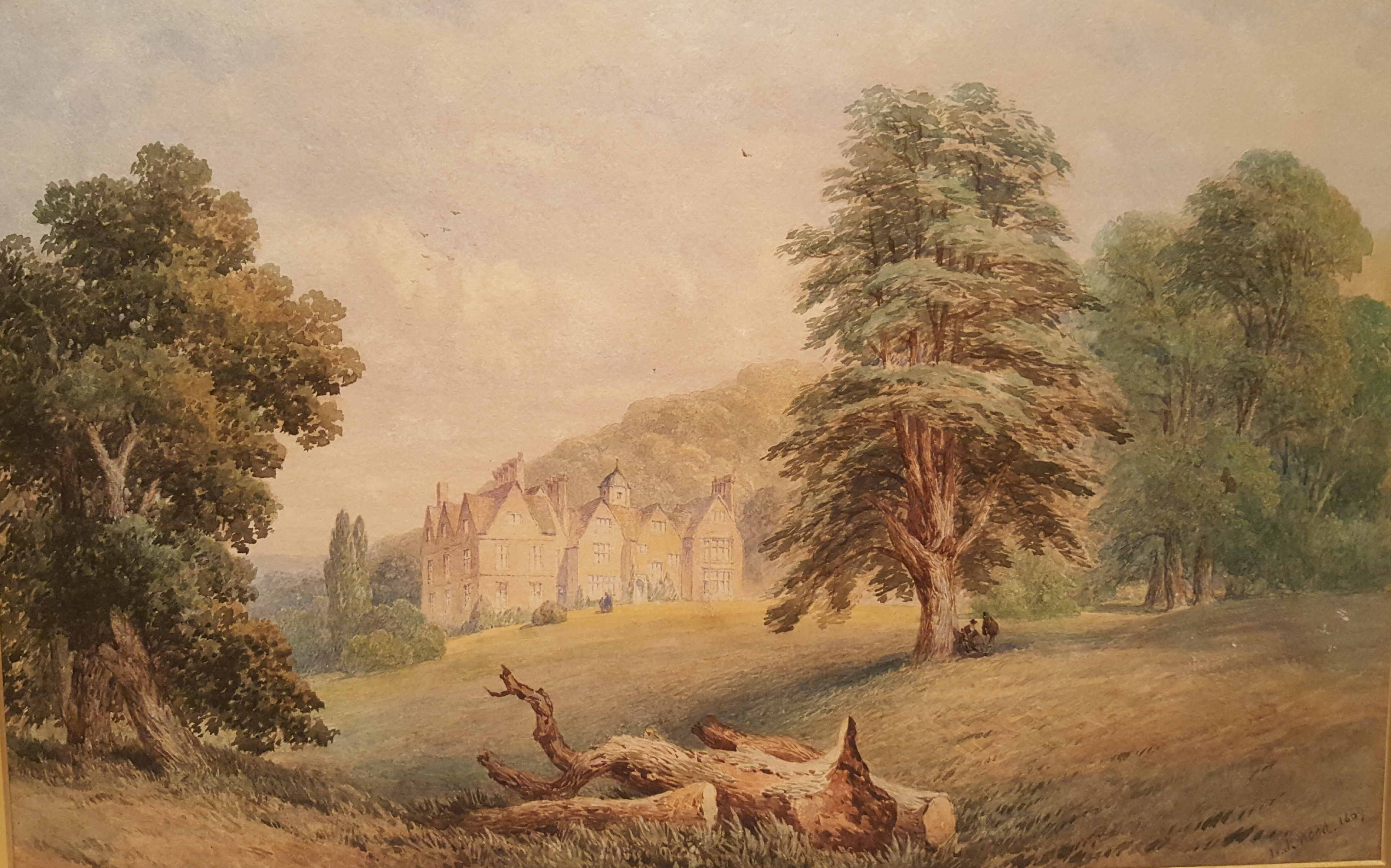 Hardwick House is a Tudor-style house on the banks of the River Thames on a slight rise at Whitchurch-on-Thames in the English county of Oxfordshire. It is reputed to have been the inspiration for E. H. Shepard's illustrations of Toad Hall in the book The Wind in the Willows by Kenneth Grahame.